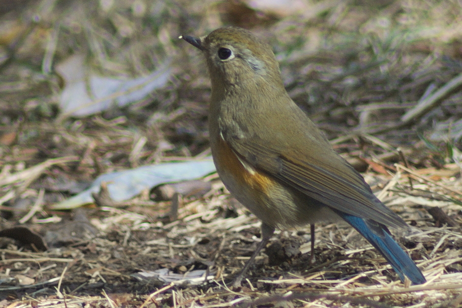 Himalayan Bluetail, in its winter habitat, in Sarmoli Village, Munsiari, Uttarakhand India altitude 2250 meters above sea level